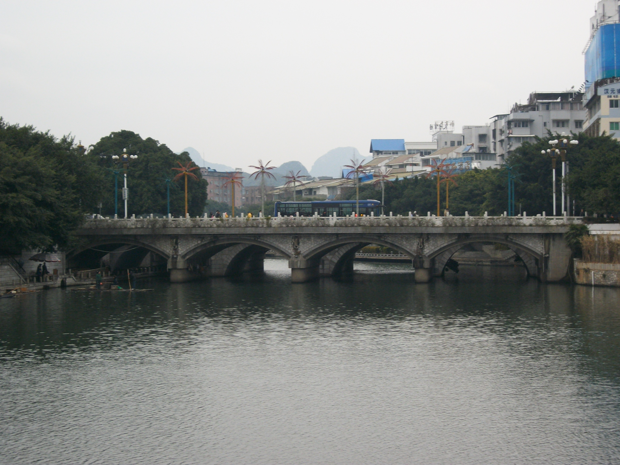 Nanmen Bridge, Guilin